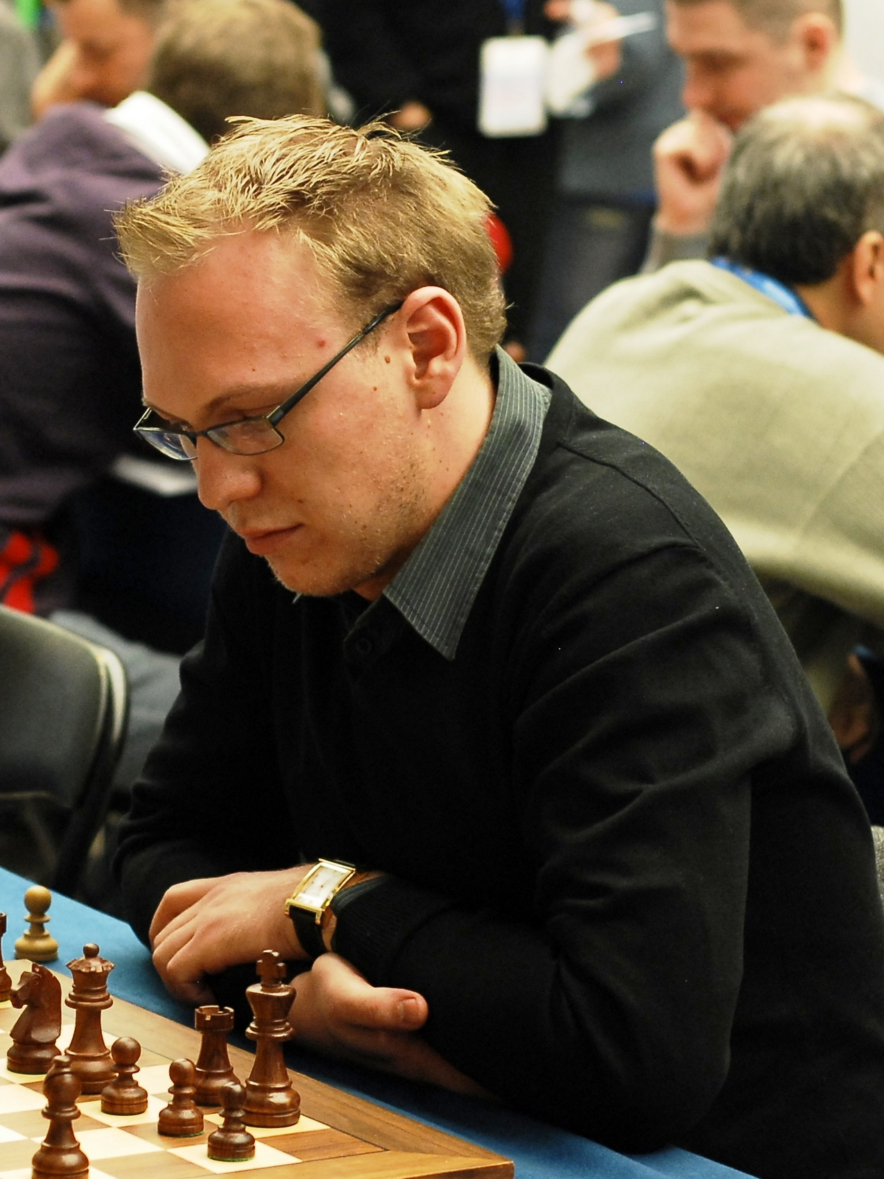 GM Markus Ragger, European Rapid Chess Championship, Warsaw 2012.